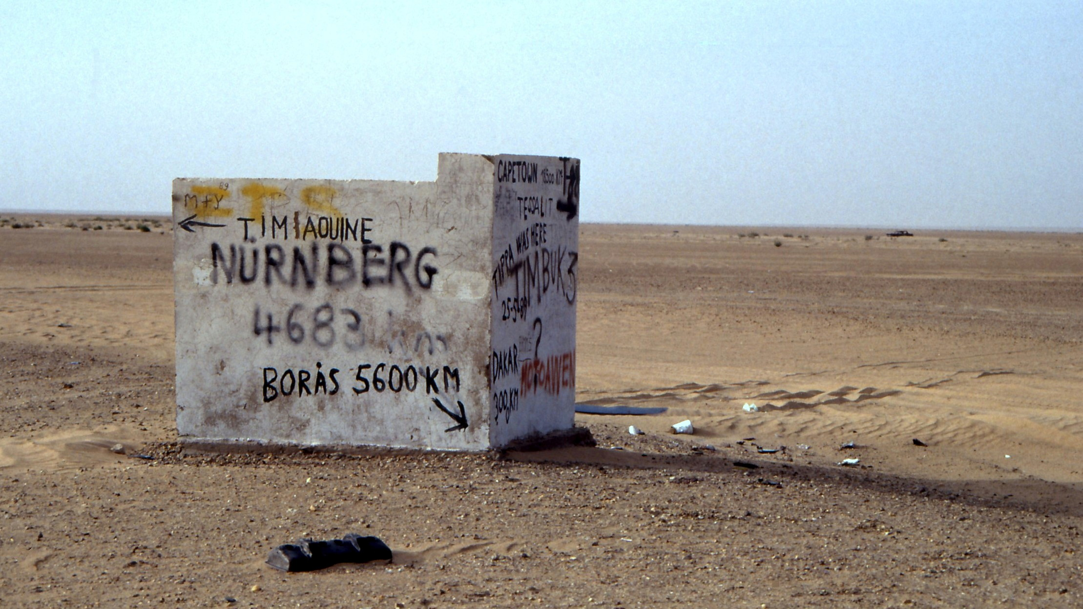 Road Marker at the Tanezrouft road, Mali, 1990.